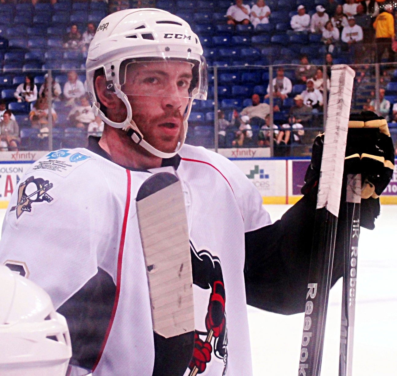 Wilkes-Barre/Scranton Penguins center Ben Street during a AHL Calder Cup Playoffs second round game against the St. John's IceCaps, May 5, 2012 at Mohegan Sun Arena at Casey Plaze in Wilkes-Barre, PA.